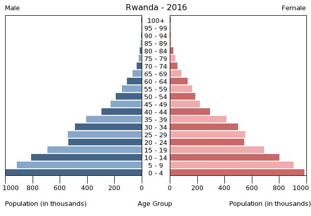 The population pyramid of Rwanda illustrates the age and sex structure of population and may provide insights about political and social stability, as well as economic development. The population is distributed along the horizontal axis, with males shown on the left and females on the right. The male and female populations are broken down into 5-year age groups represented as horizontal bars along the vertical axis, with the youngest age groups at the bottom and the oldest at the top. The shape of the population pyramid gradually evolves over time based on fertility, mortality, and international migration trends.